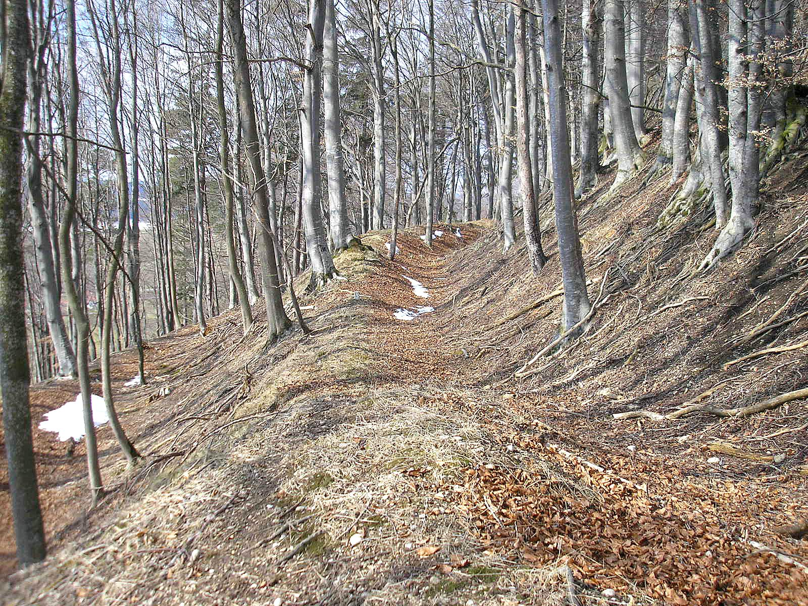 Early Middle Ages hill fort near Romatsried (Eggenthal, Landkreis Ostallgäu, Bavaria, Germany). The western earthworks, looking north}